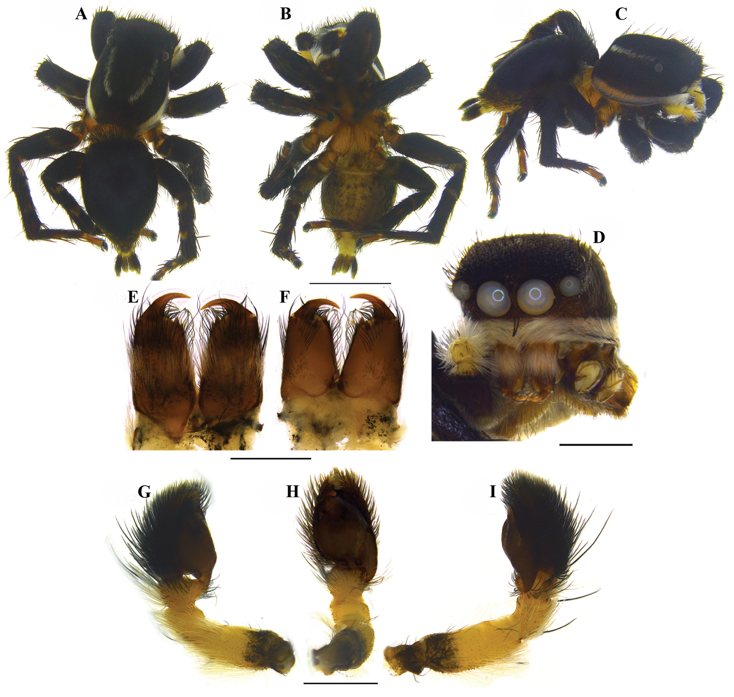 Stenaelurillus albus sp. n. A Male habitus, dorsal view B Same, ventral view C Same, prolateral view D Same, frontal view E Male chelicerae, dorsal view F Same, ventral view G Left male palp, prolateral view H Same, ventral view I Same, retrolateral view. Scale bars: A–C = 2 mm; D = 1 mm; E–F = 0.5 mm; G–I = 0.5 mm.